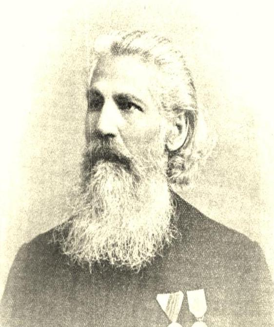 Simion Florea Marian. Image taken from Şezătoarea - Revistă pentru literatură si tradiţiuni populare, Volume 9, edited by Artur Gorovei, 1905, cover.